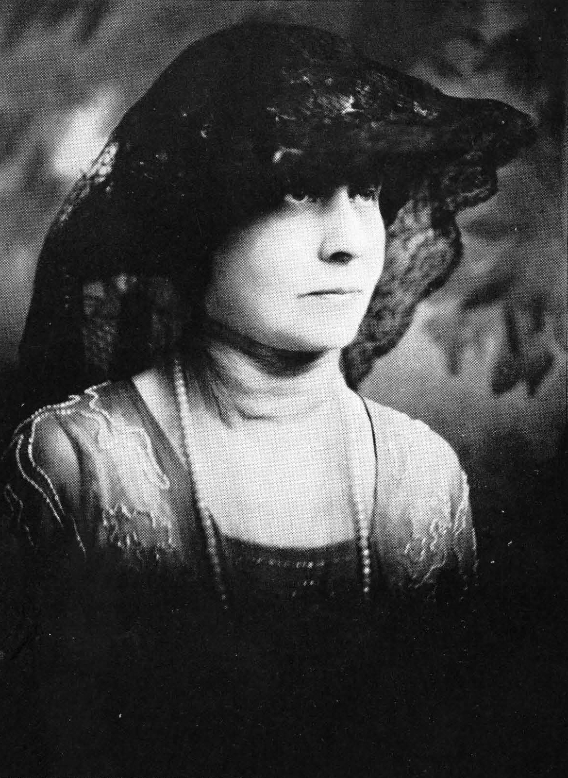 Greta Ervin Millikan, wife of Robert A. Millikan, in 1923